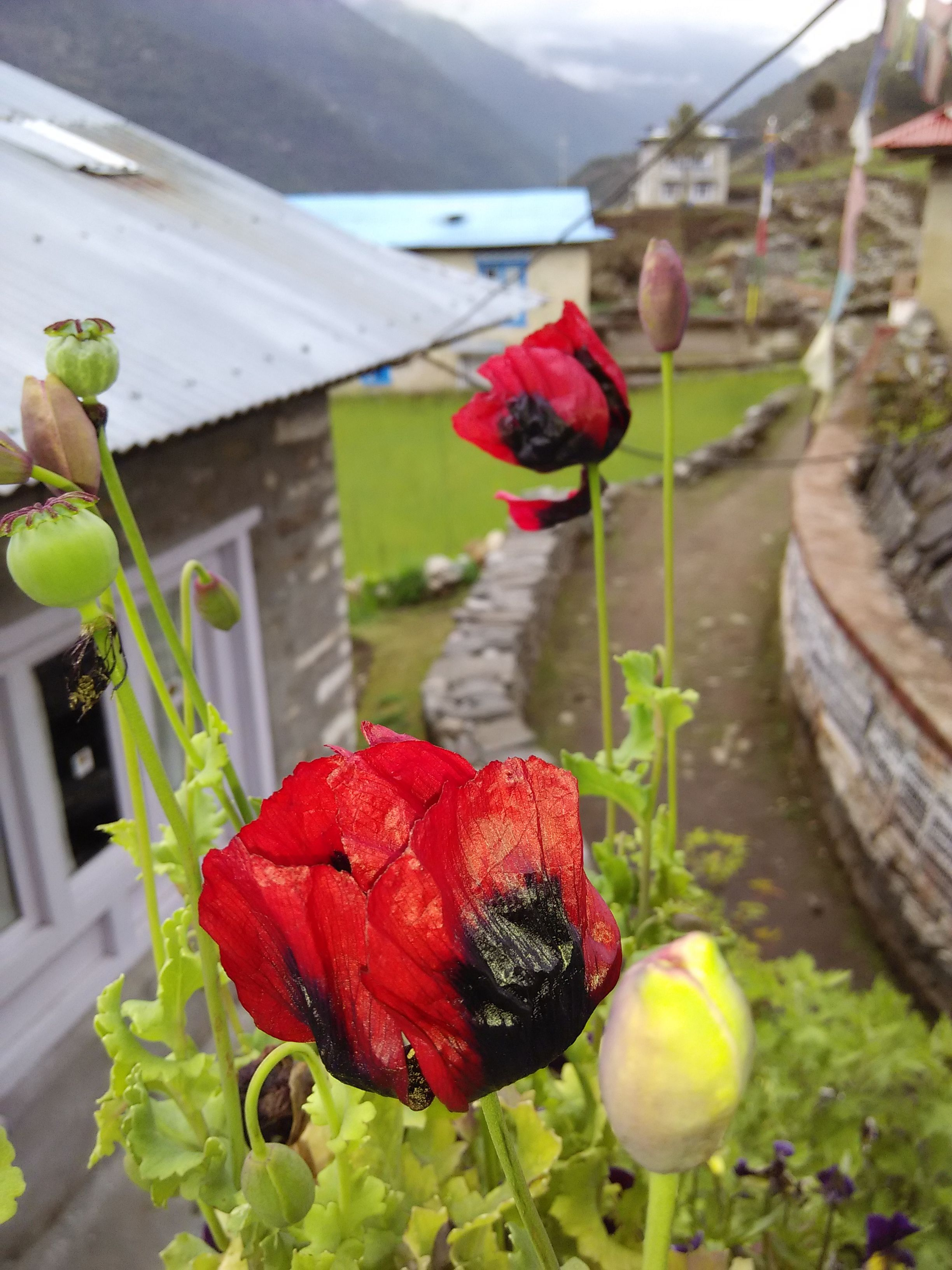 Opium poppy seed and flower at Budhha lodge of Chaurikharka,Nepal